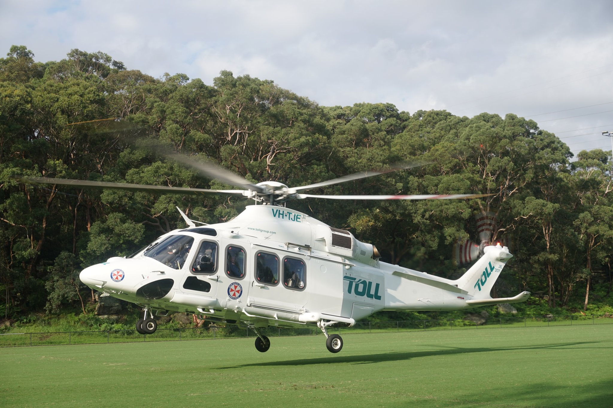 New South Wales Ambulance TOLL contracted helicopter Rescue 201 taking off from a major accident at Picnic Point in Sydney's South West